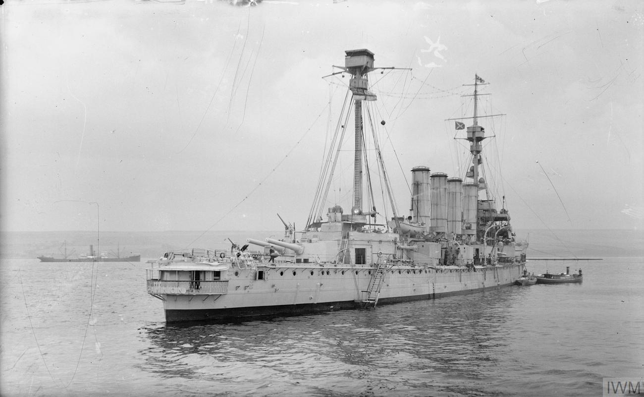 HMS SHANNON at Cromarty, November 1915